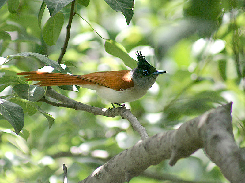 Asian Paradise Flycatcher Terpsiphone paradisi in Kullu District of Himachal Pradesh, India.